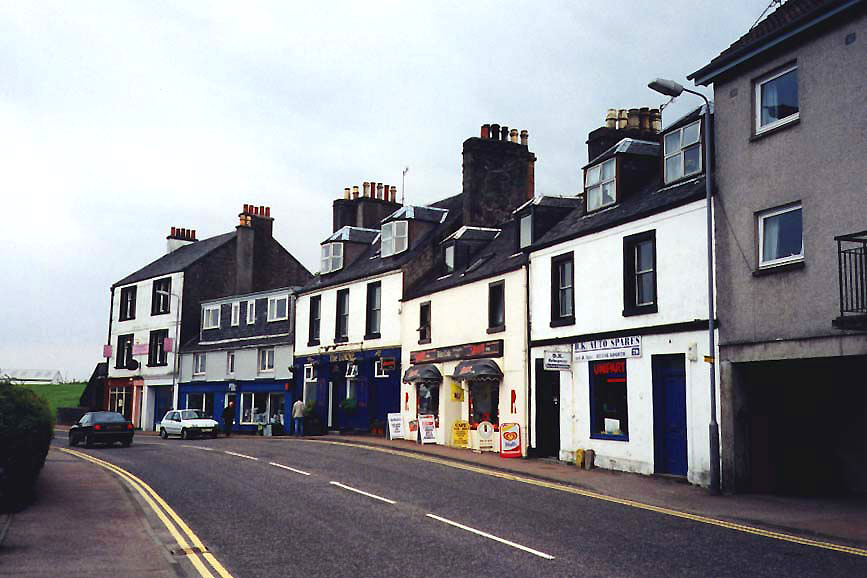 Photo from 2000 of Chalmers Street in Ardrishaig, the main business area of the village